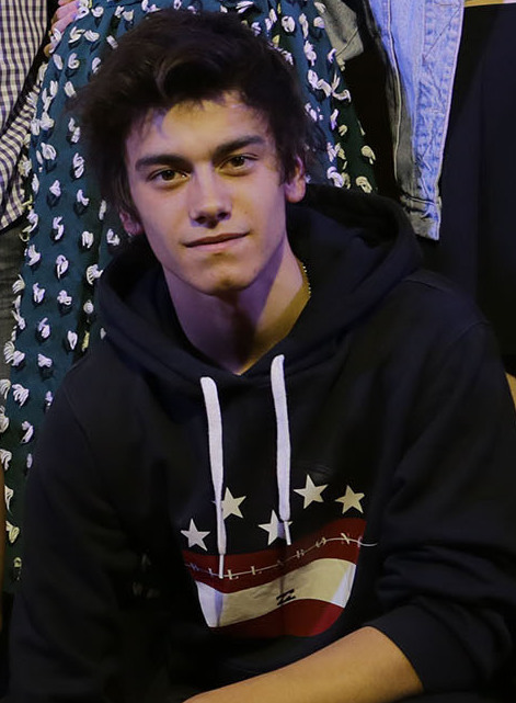 Baires. Diciembre 21 de 2014. El jefe de Gobierno porteño, Mauricio Macri, saludó hoy a la artista juvenil Martina “Tini” Stoessel, quien fue la máxima atracción del Eco Fashion Show que se realizó en Parque de San Benito (Figueroa Alcorta y La Pampa) como parte de la tarea que realiza la Ciudad para concientizar sobre el cuidado del medioambiente.Foto Monica martinez-gv/GCBA.